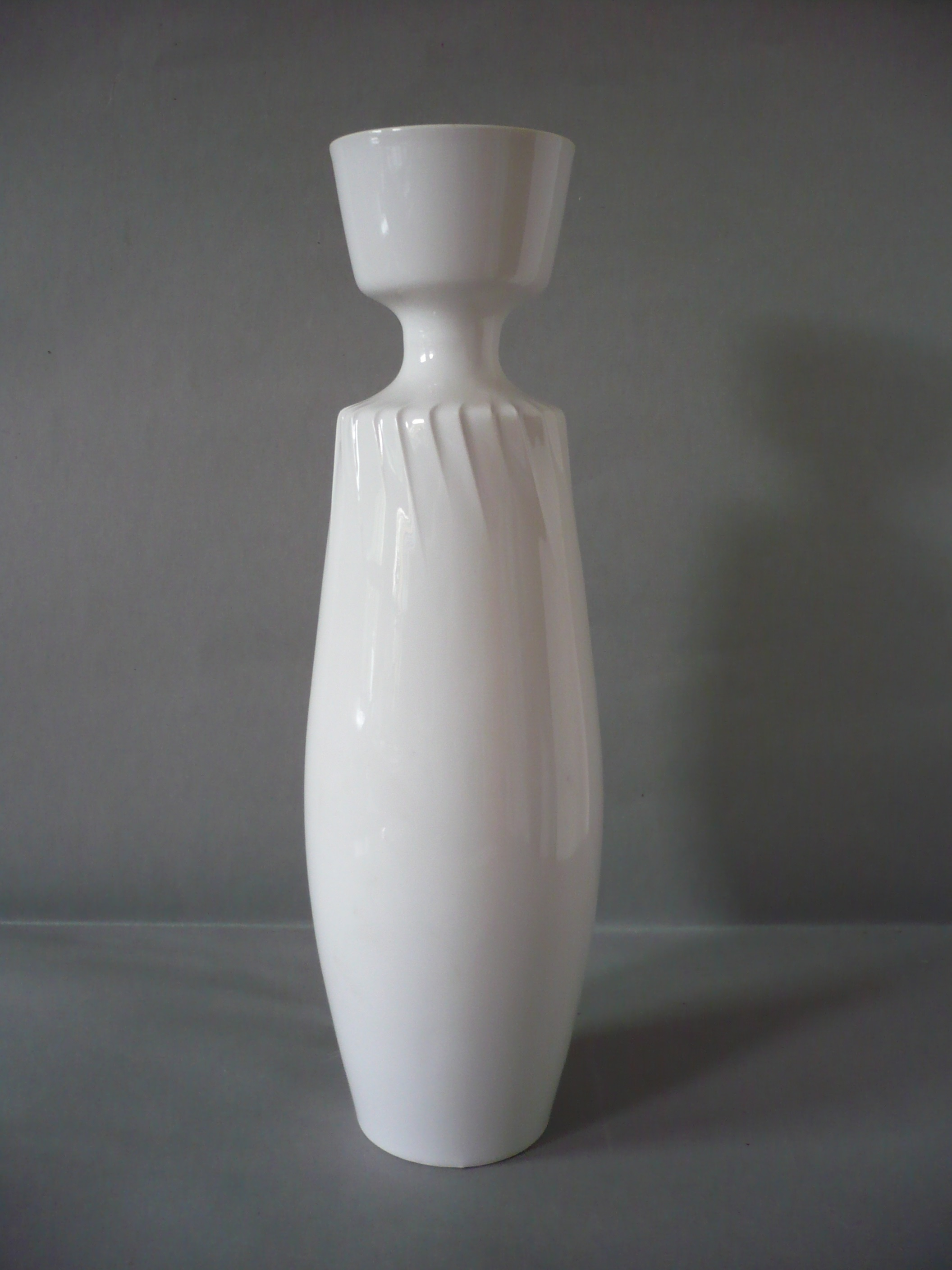 KPM Vase Ikarus by Walter Popp